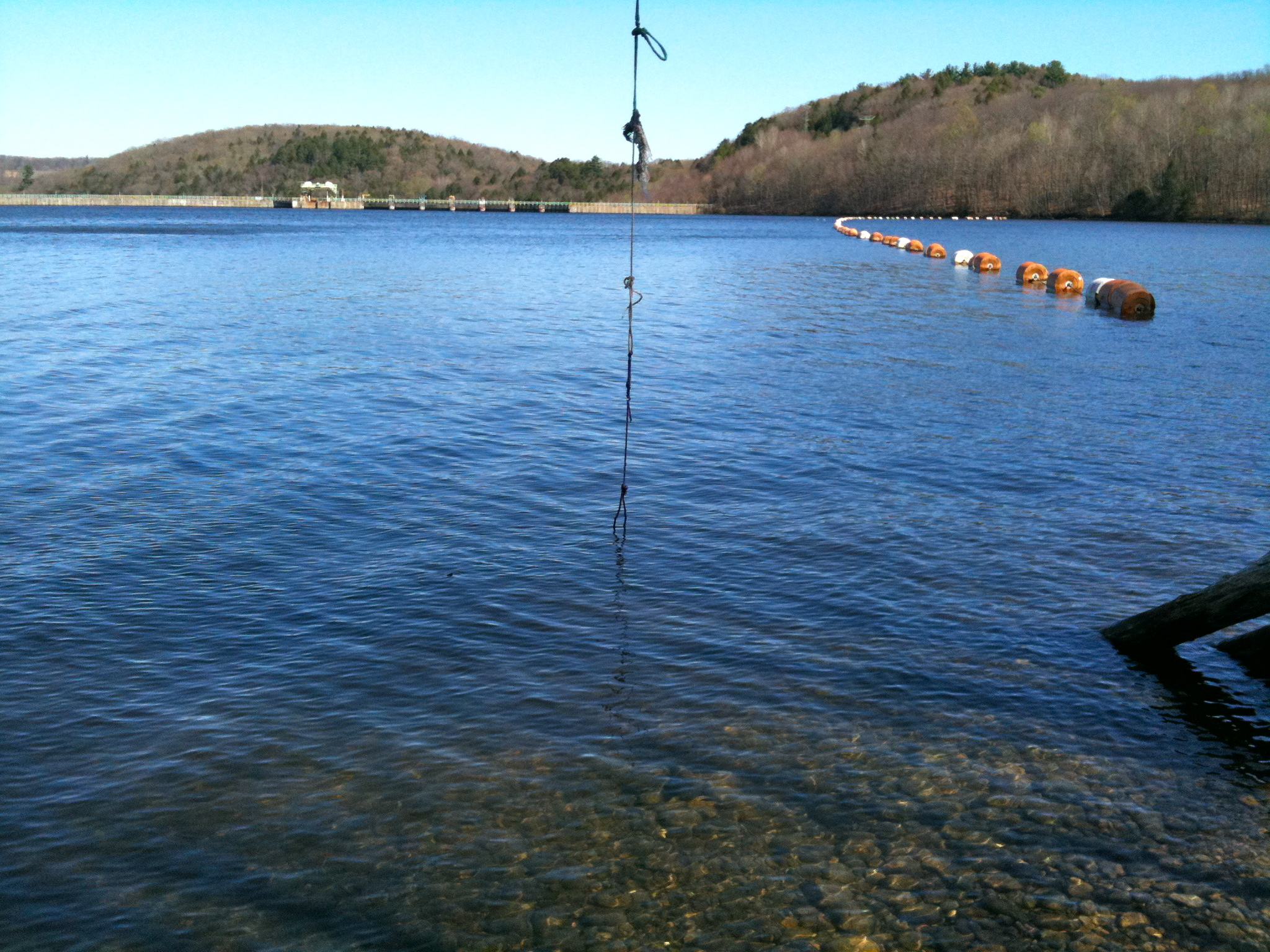 Lillinonah Trail. Blue-Blazed CFPA foot path which circles the upper Paugussett State Forest (and Lake Lillinonah/Housatonic River) in Newtown, CT. Southern Lake Lillinonah facing dam from Lillinonah Trail. Blue-Blazed CFPA foot path which circles the upper Paugussett State Forest (and Lake Lillinonah/Housatonic River) in Newtown, CT.